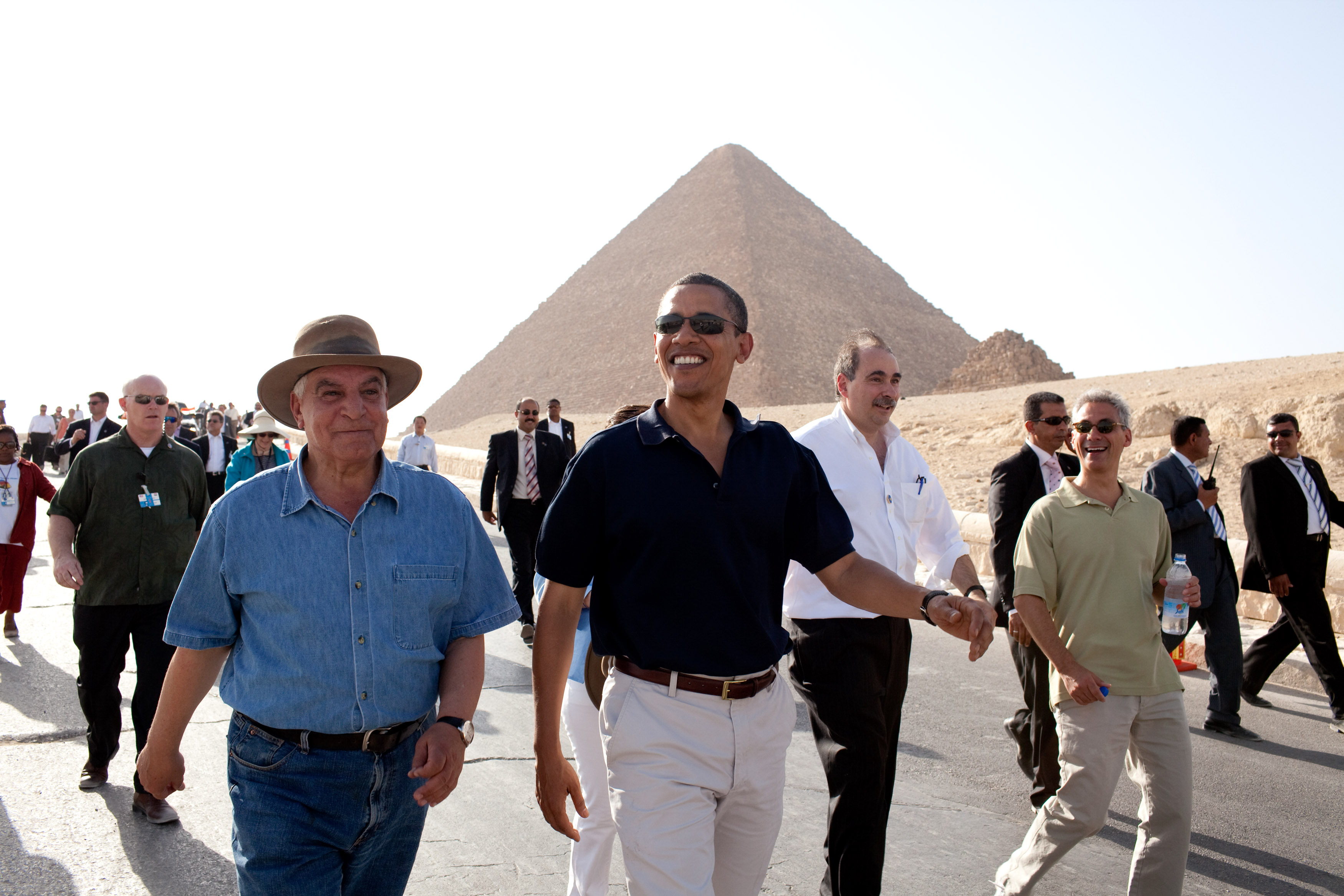 President Barack Obama tours the Pyramids and Sphinx with Secretary General of the Egyptian Supreme Council of Antiquities, Zahi Hawass (left), Senior Advisor David Axelrod and Chief of Staff Rahm Emanuel (right), June 4, 2009. (Official White House photo by Pete Souza) This official White House photograph is in the public domain from a copyright perspective, so while restrictions such as personality or privacy rights may apply, in general, manipulations are allowed.